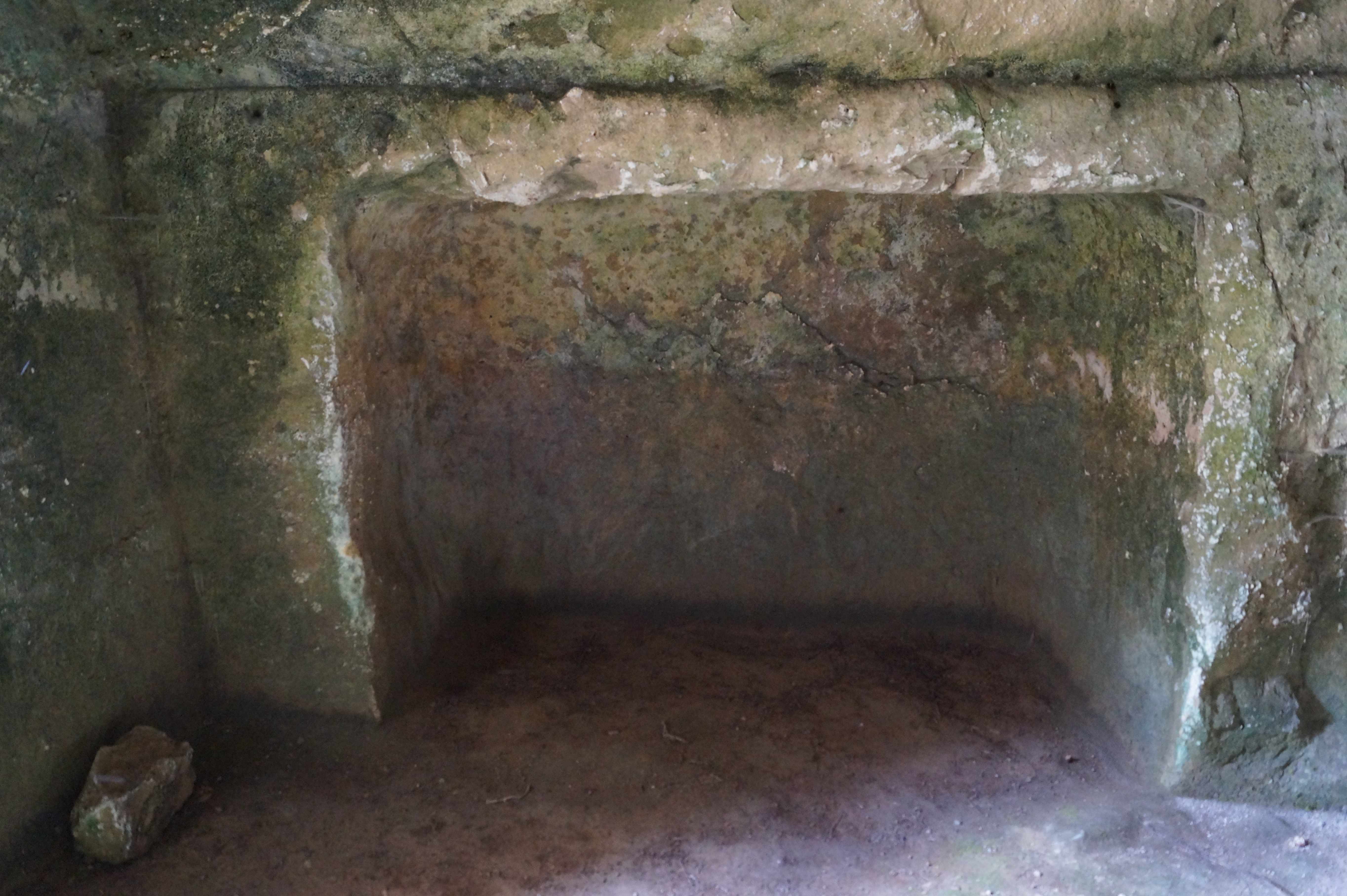 Aidonia, Corinthia, Greece: Mycenaean cemetery of Aidonia, niche in the burial chamber of tomb 3.